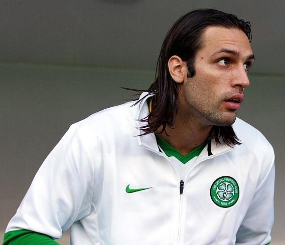 Georgios Samaras